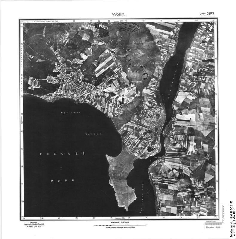 Wollin